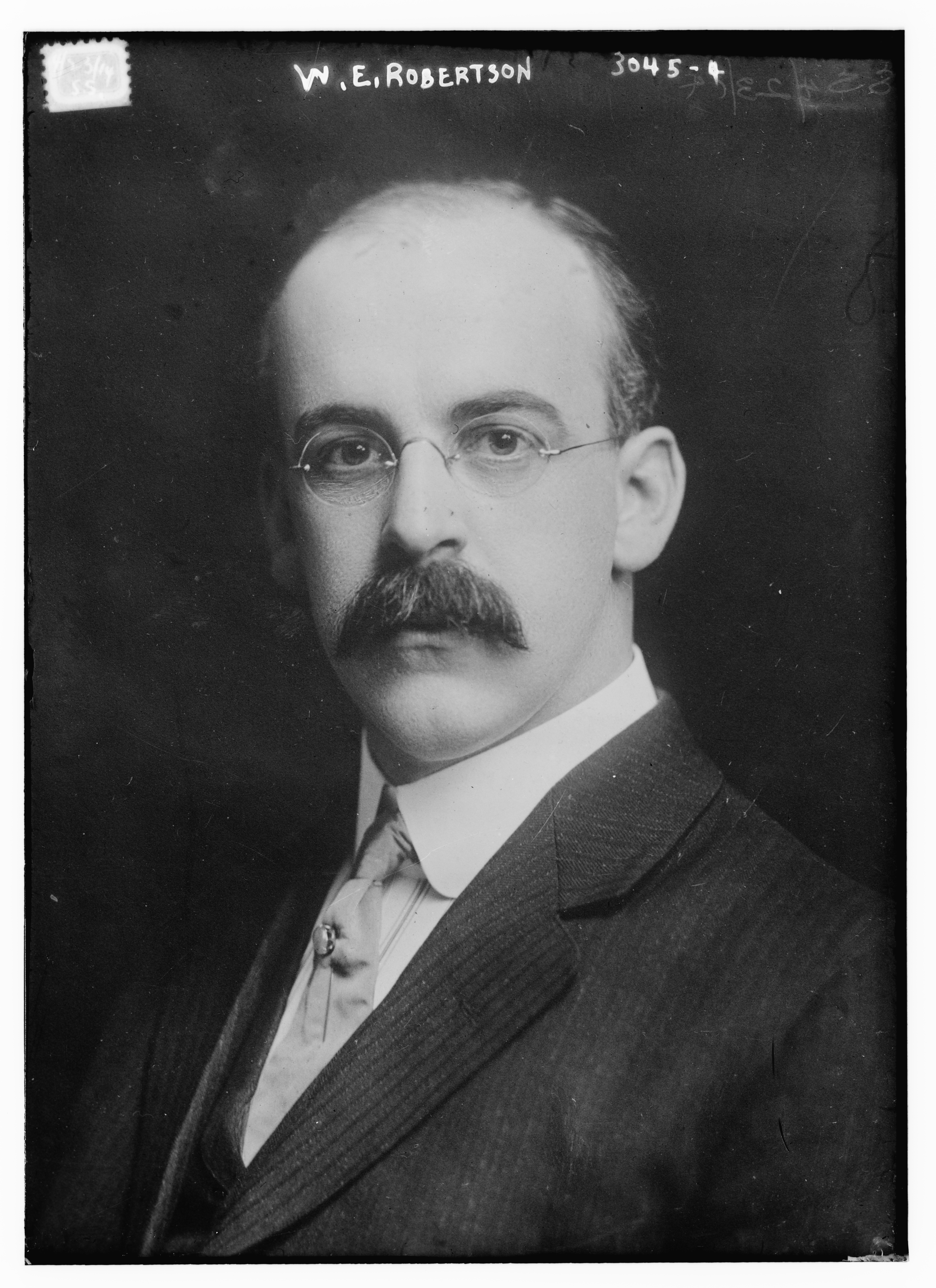 [William E. Robertson, President of Buffalo Federal League baseball team] (LOC) Bain News Service,, publisher. William E. Robertson, President of Buffalo Federal League baseball team [1914] 1 negative : glass ; 5 x 7 in. or smaller. Notes: Original data provided by the Bain News Service on the negatives or caption cards: W.E. Robertson. Corrected title and date based on research by the Pictorial History Committee, Society for American Baseball Research, 2006. Forms part of: George Grantham Bain Collection (Library of Congress). Format: Glass negatives. Repository: Library of Congress, Prints and Photographs Division, Washington, D.C. 20540 USA, General information about the Bain Collection is available at Persistent URL: Call Number: LC-B2- 3045-4